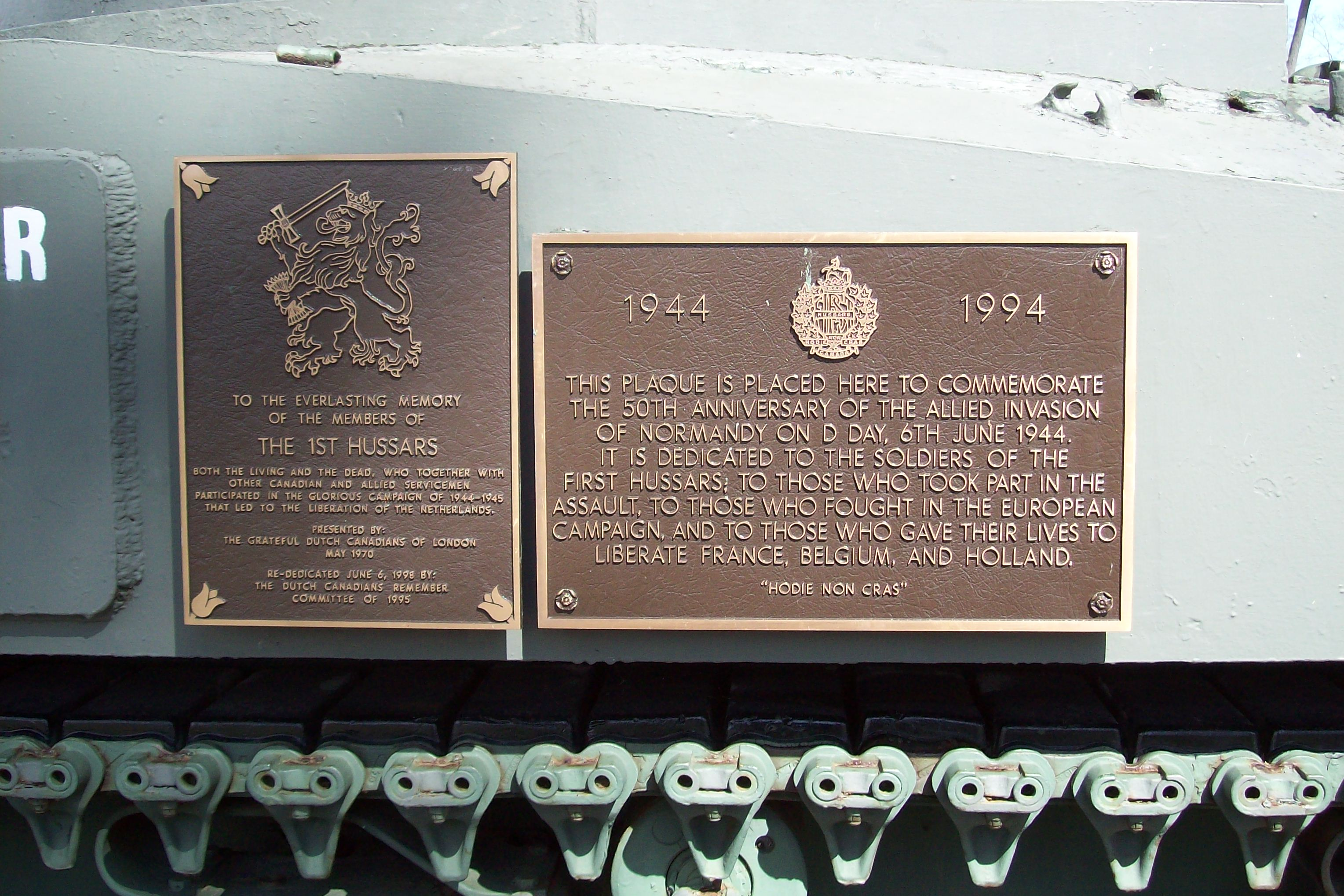 Victoria Park London Ontario Canada. Home of Sunfest.